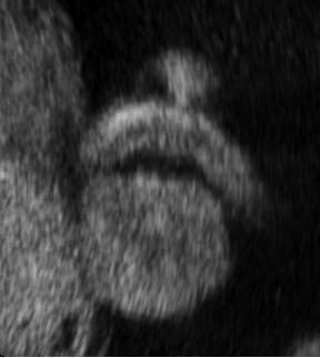 Vue frontale d'une face. Frontal view of a fetal face